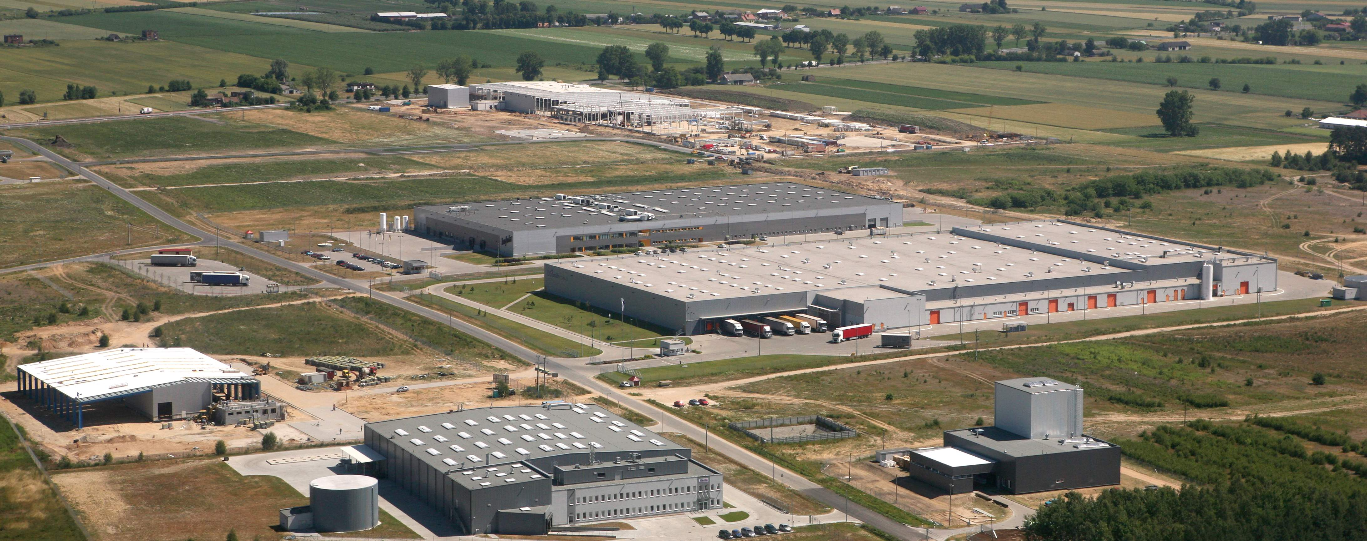 Bird's eye view of Subzone Kutno of Łódź Special Economic Zone